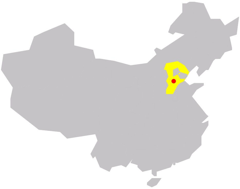 Description: position of Baoding in China Source: own work Date: December 2005 Author: --Immanuel Giel 12:24, 15 December 2005 (UTC) Other versions: none Baoding Baoding Baoding